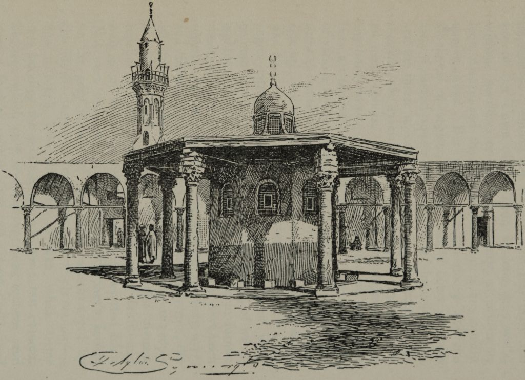 COURT OF THE MOSQUE OF ‘AMR. A courtyard inside of the mosque. Line Drawing.